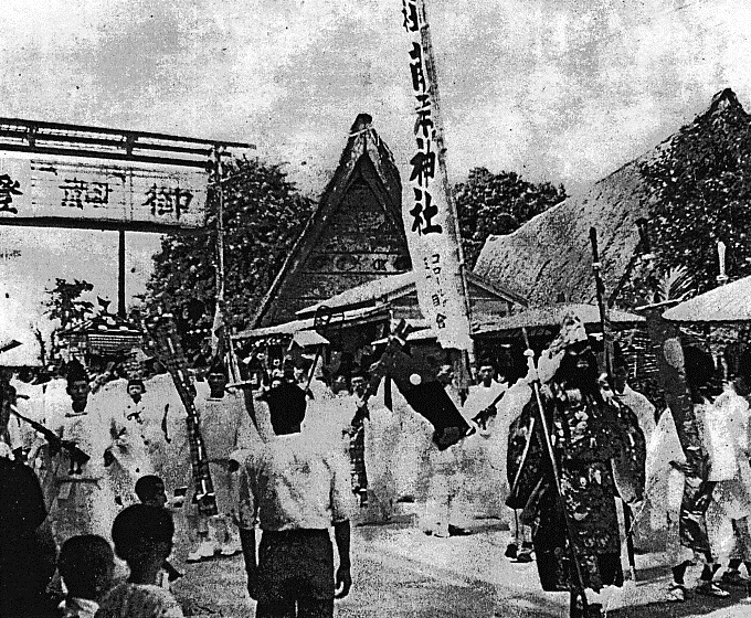 Nan'yo Shrine Matsuri